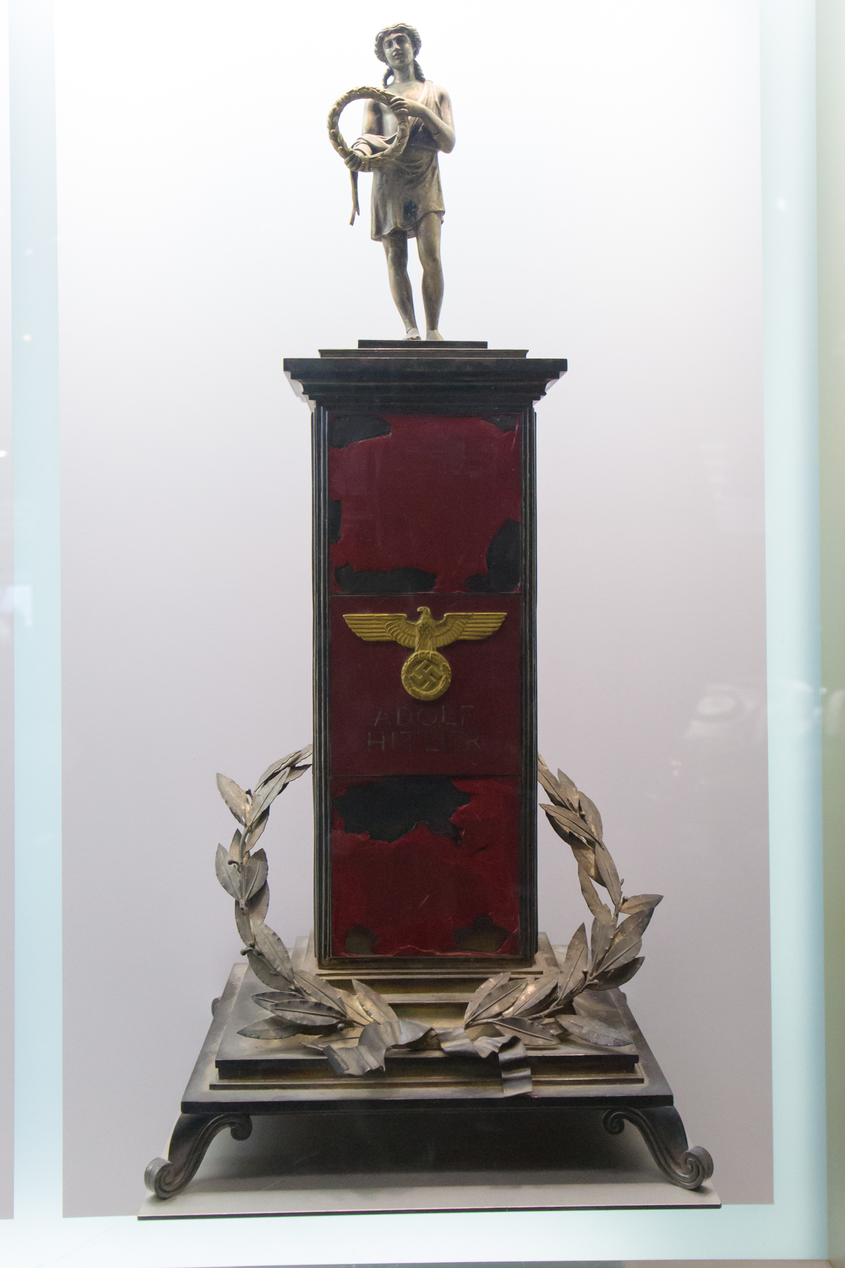 1939 German Grand prix winner's cup, won by Rudolf Caracciola.